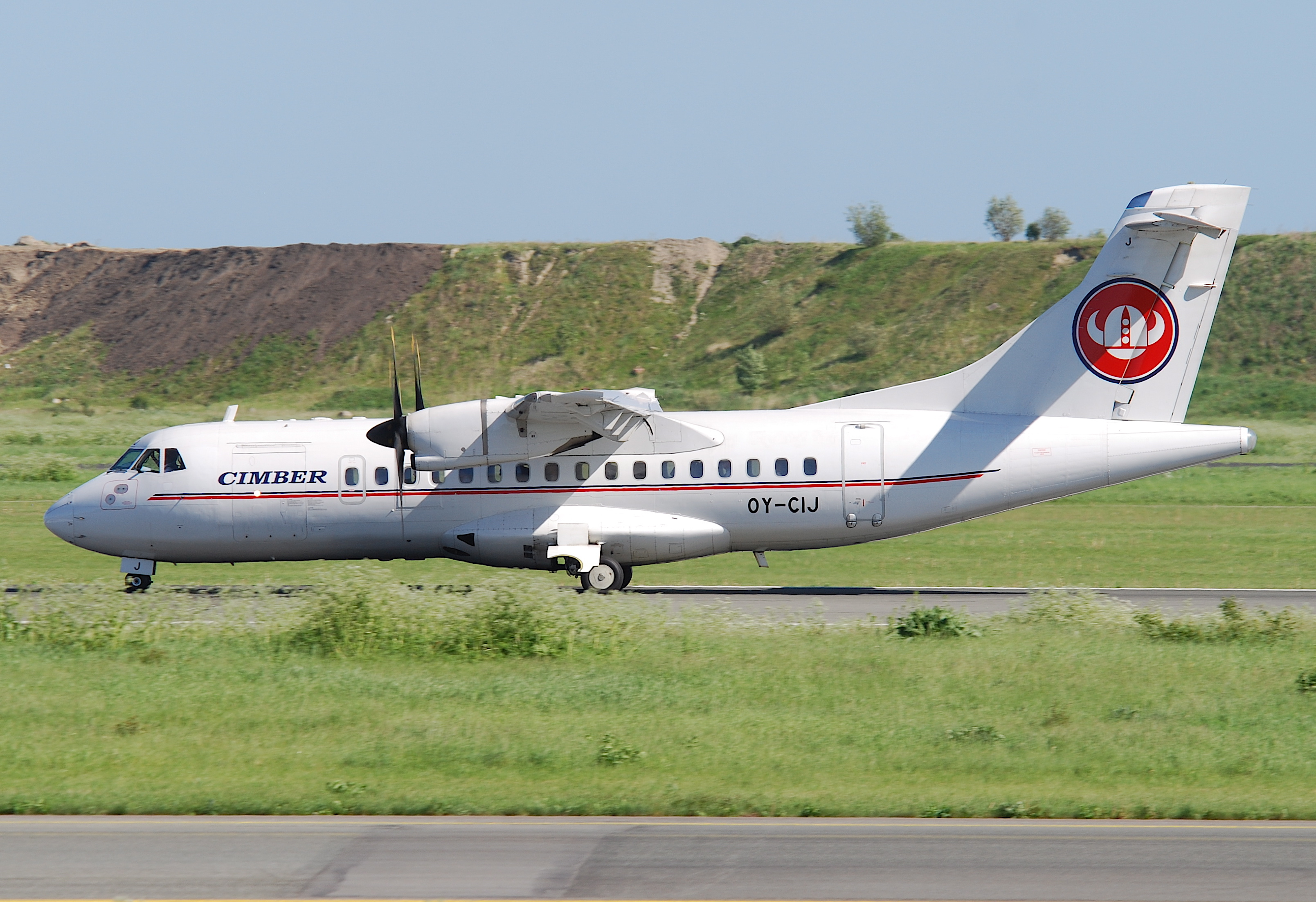 Cimber Air ATR 42; OY-CIJ@CPH;03.06.2010/574et